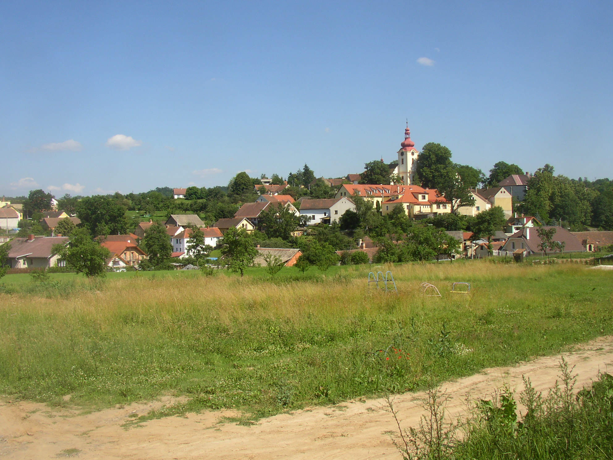 Chlum (administrative part of Nalžovice, 6 km northwest of Sedlčany, Czech Republic). A view towards St Wenceslas church.